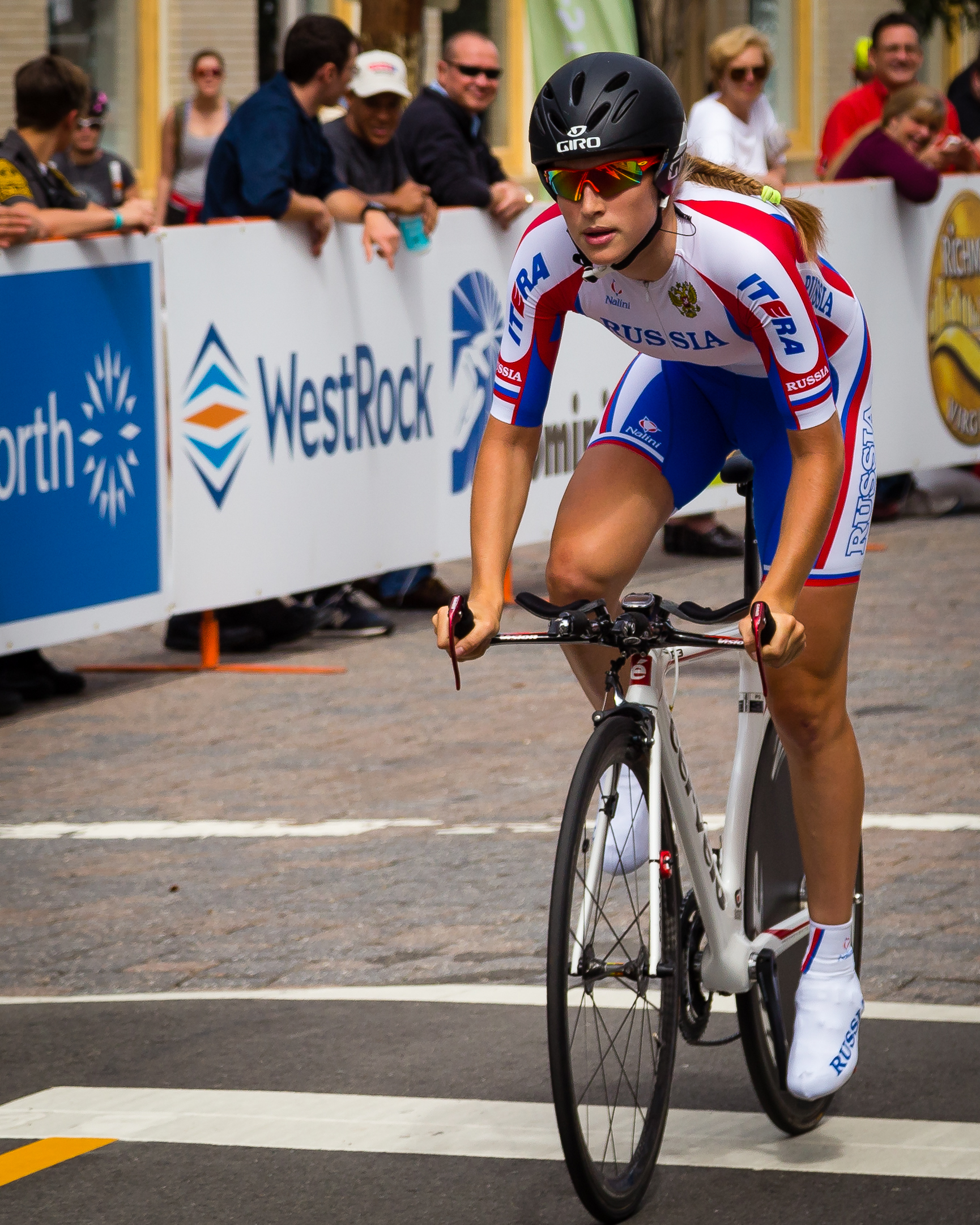 UCI Road World Championships 2015, Richmond, VA #UCI2015 2015 UCI Road World Championships, in Richmond, United States